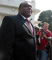 DR Congo 2006 presidential election candidate Jean-Pierre Bemba